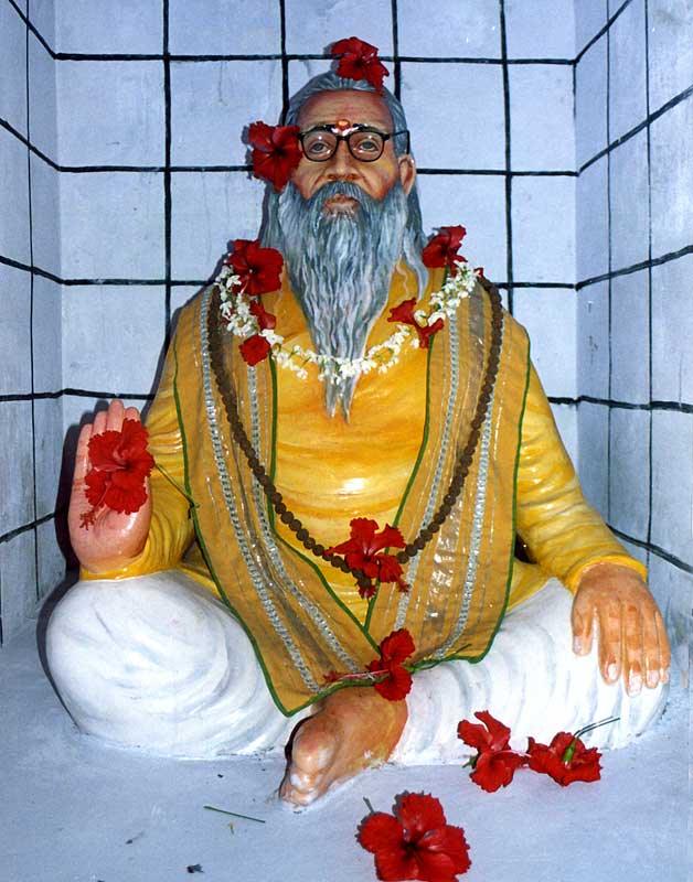 Deity of Shrila Vyasadev in Naimisharanya